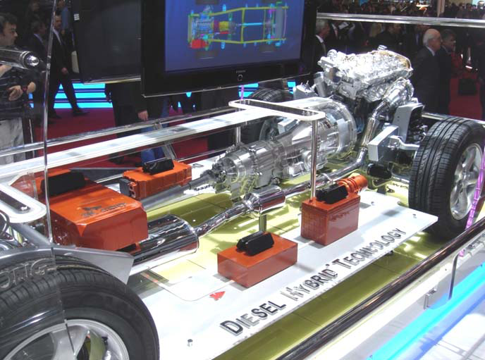 SsangYong diesel-hybrid chassis at the 2008 Geneva Motor Show.